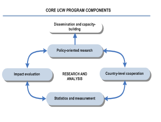 The Programme is comprised of five core components as depicted in the figure below.